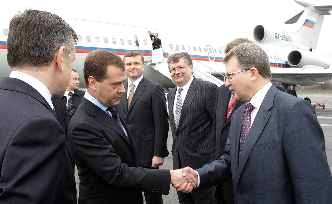 Russian President Dmitry Medvedev touched down at Kharkiv, April 2010